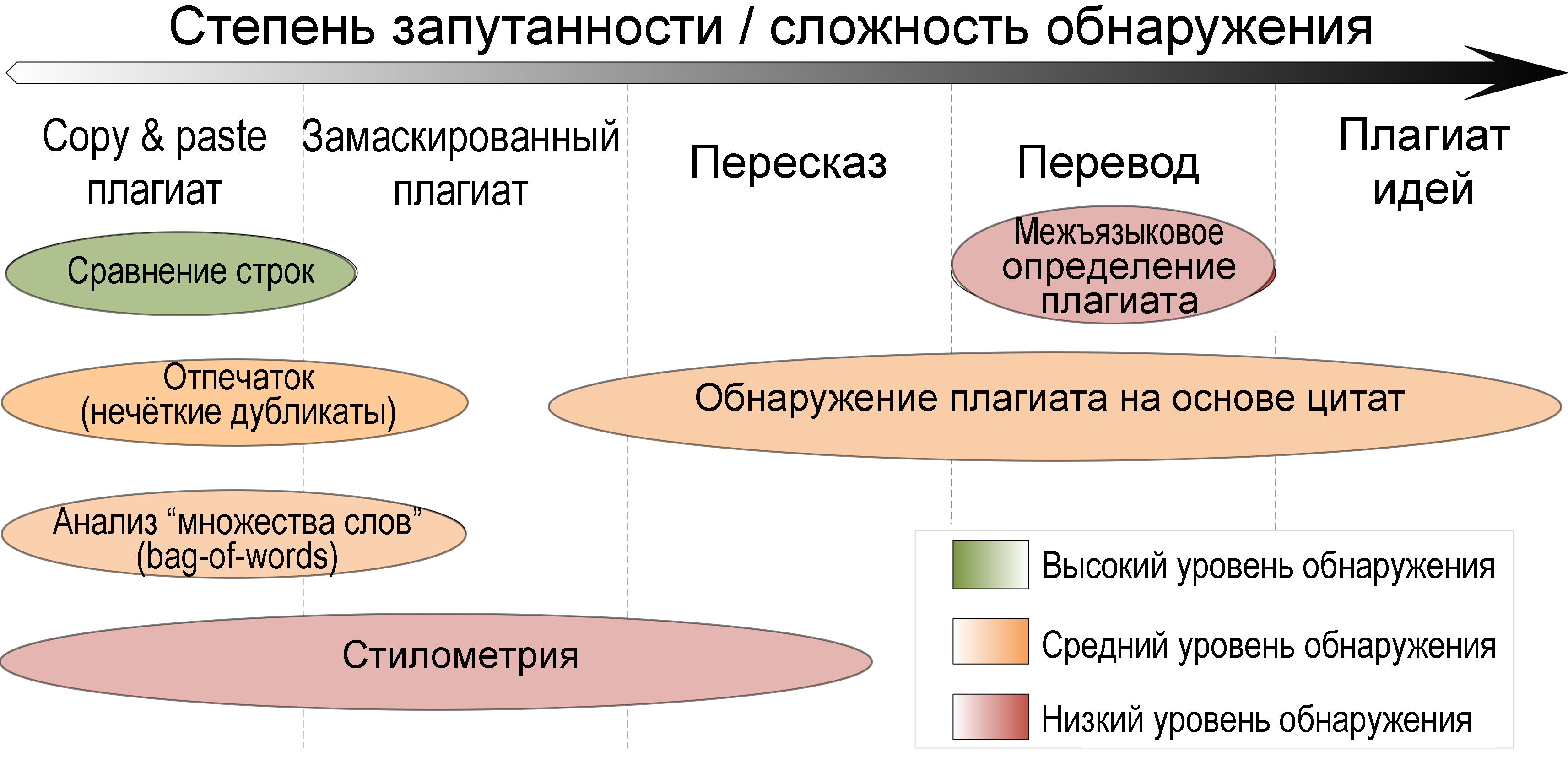 The figure summarizes the suitability of different plagiarism detection approaches depending on the form of plagiarism being present.